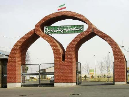 Portal of Medical University of Ardabil.